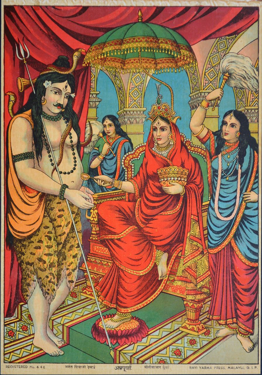 Early Lithograph by Ravi Varma Press Annapurna